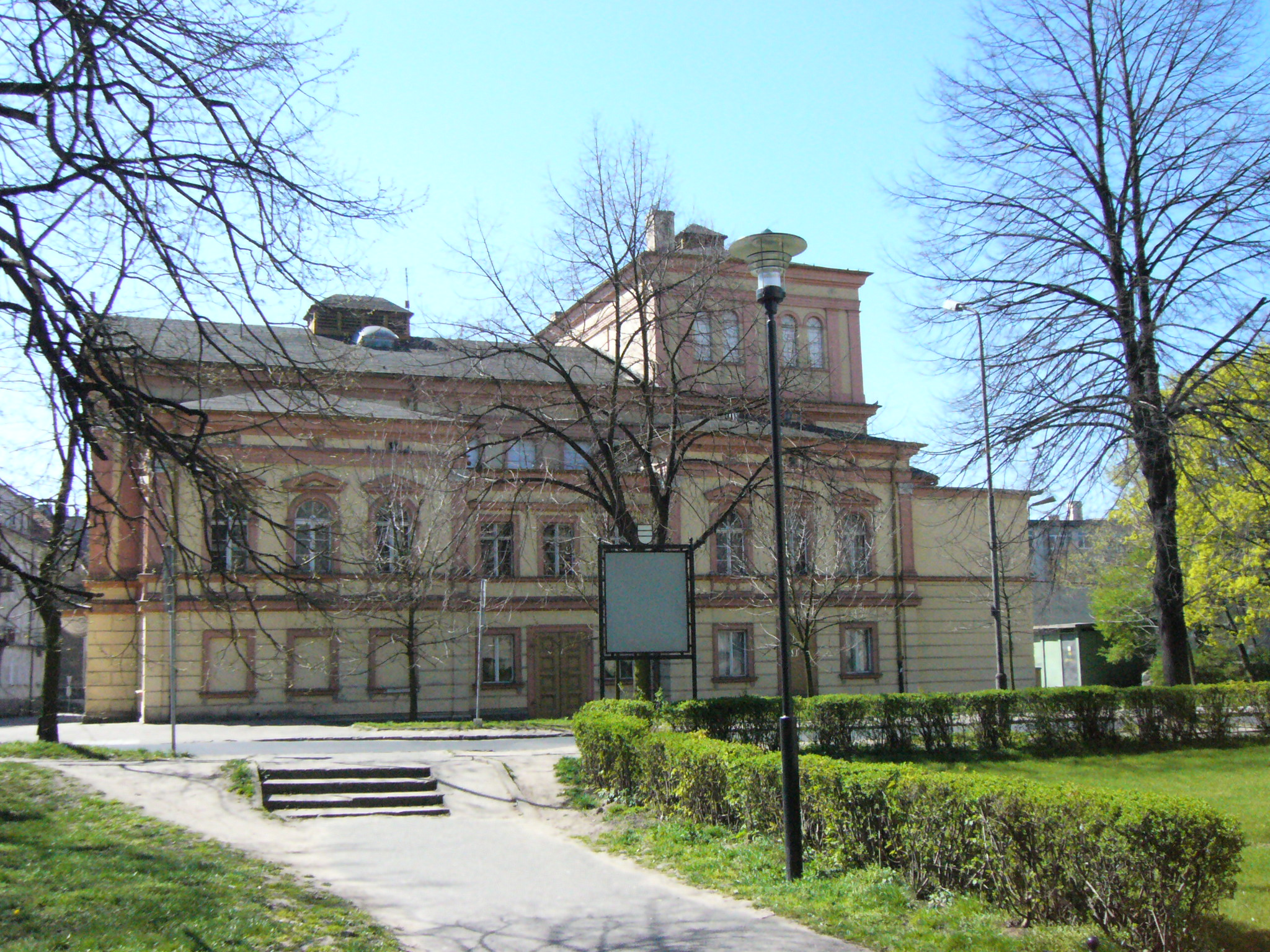 Bolesławiec (city in Poland, city theater front side